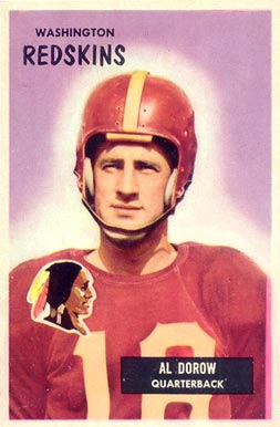 American football player Al Dorow on a 1955 Bowman card.